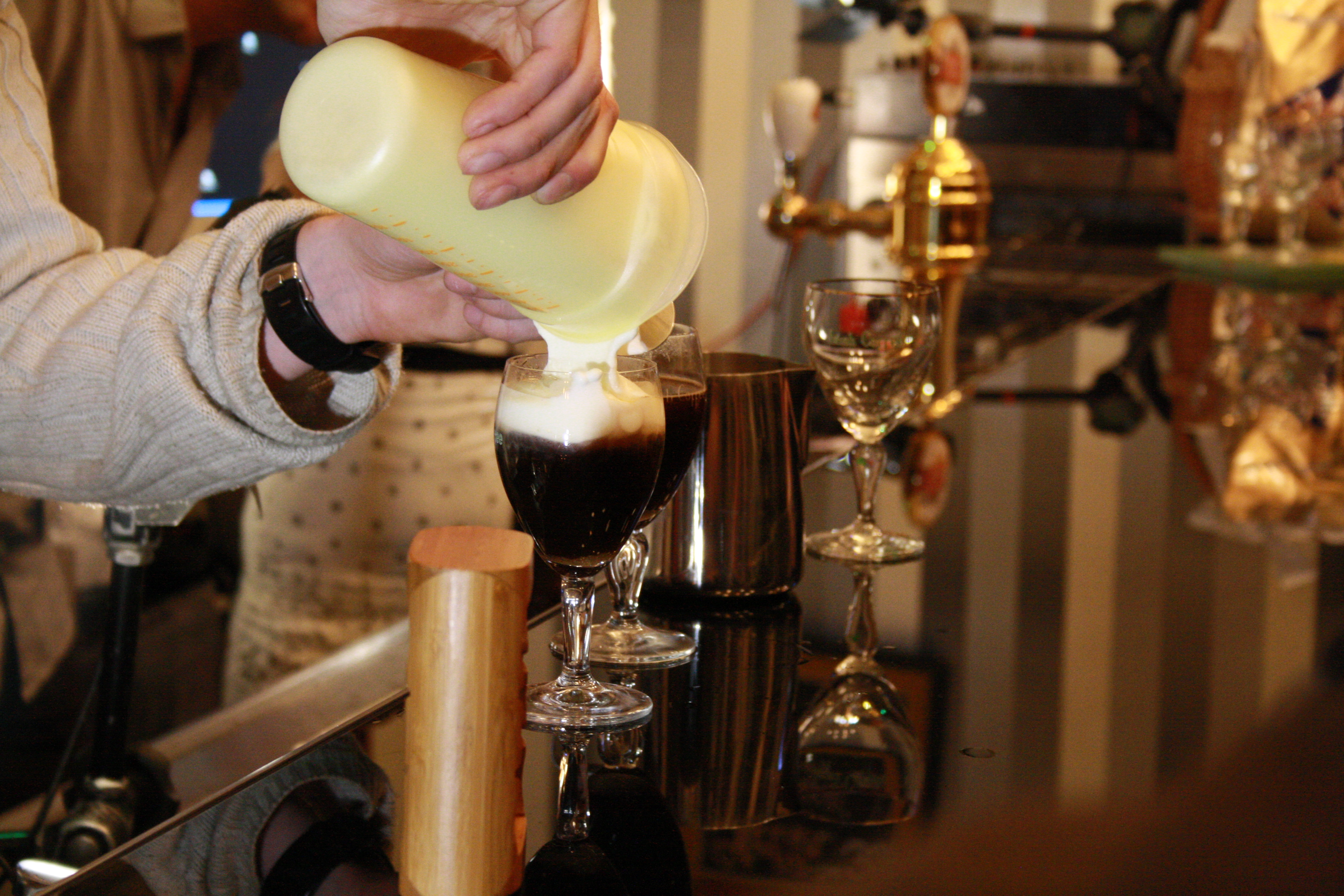 Making of Irish coffee on Coffee Right in Brno, Czech Republic.